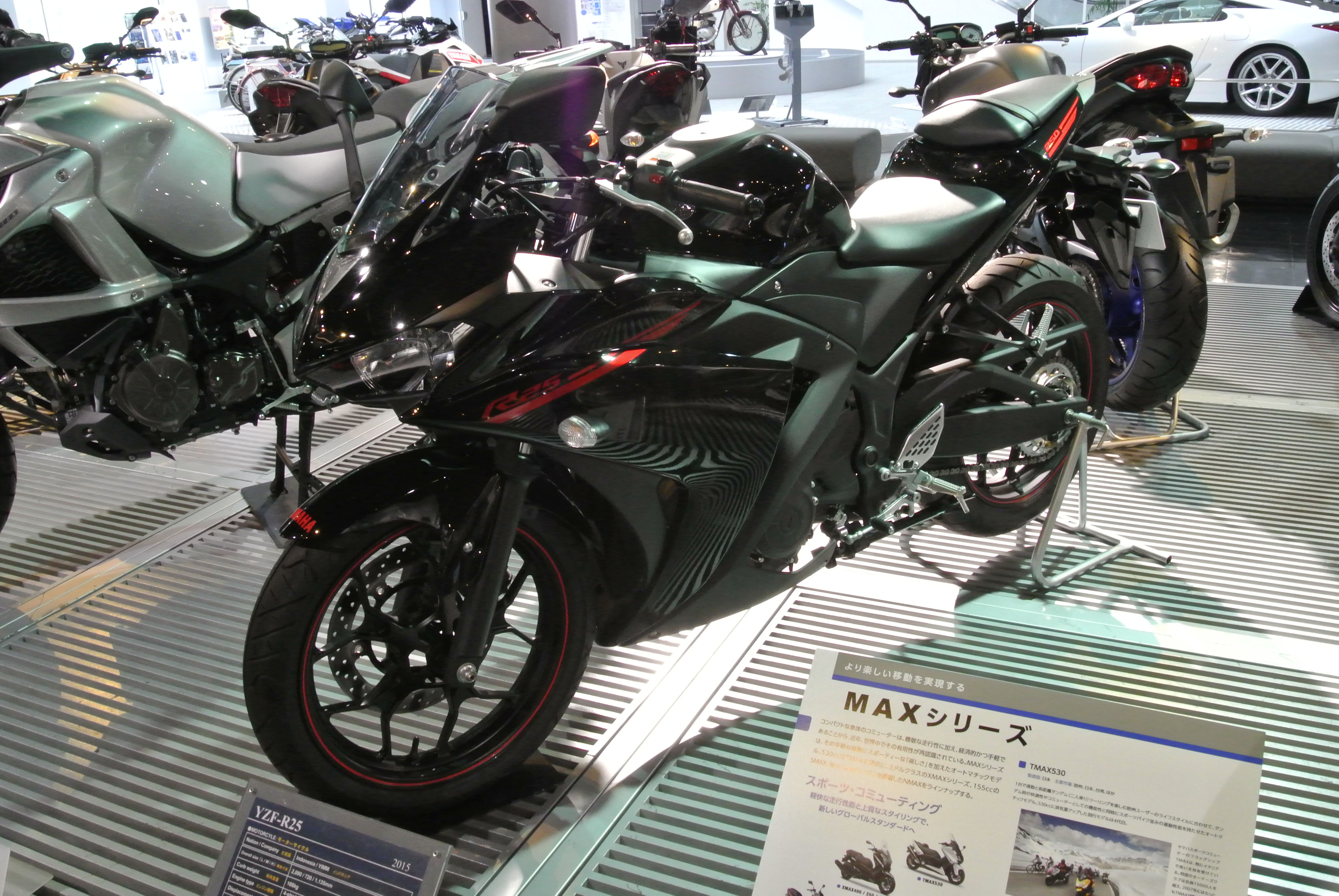 2015 Yamaha YZF-R25 in the Yamaha Communication Plaza.